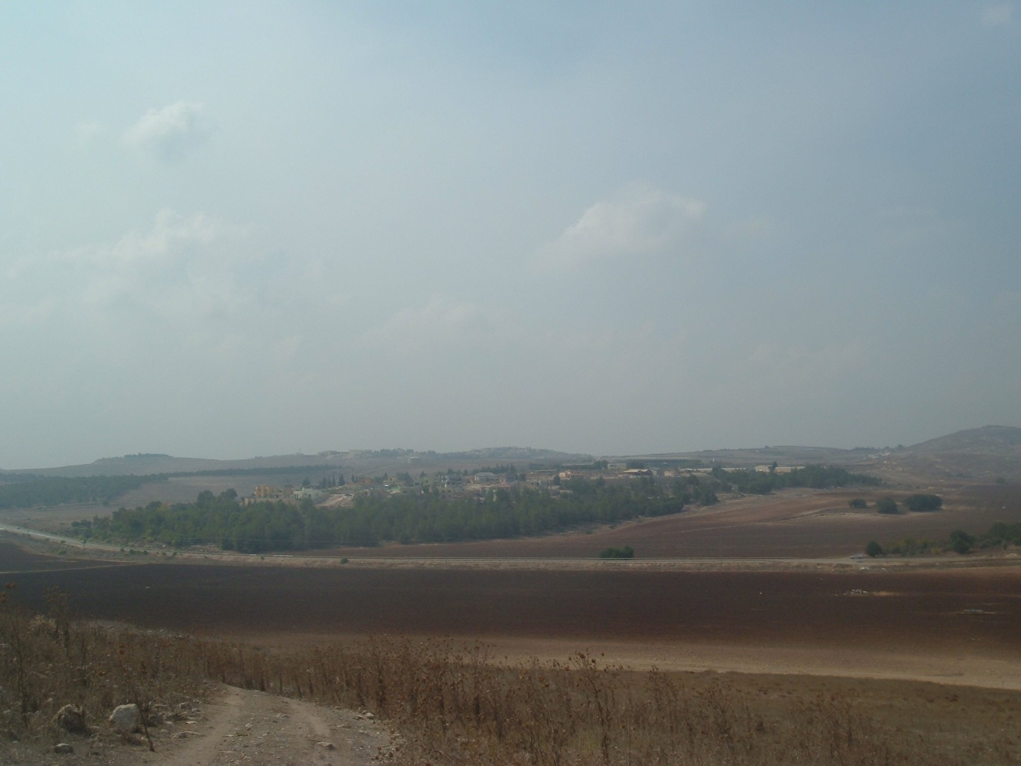 Hanaton. View from Tel Hanaton חנתון, מבט מתל חנתון